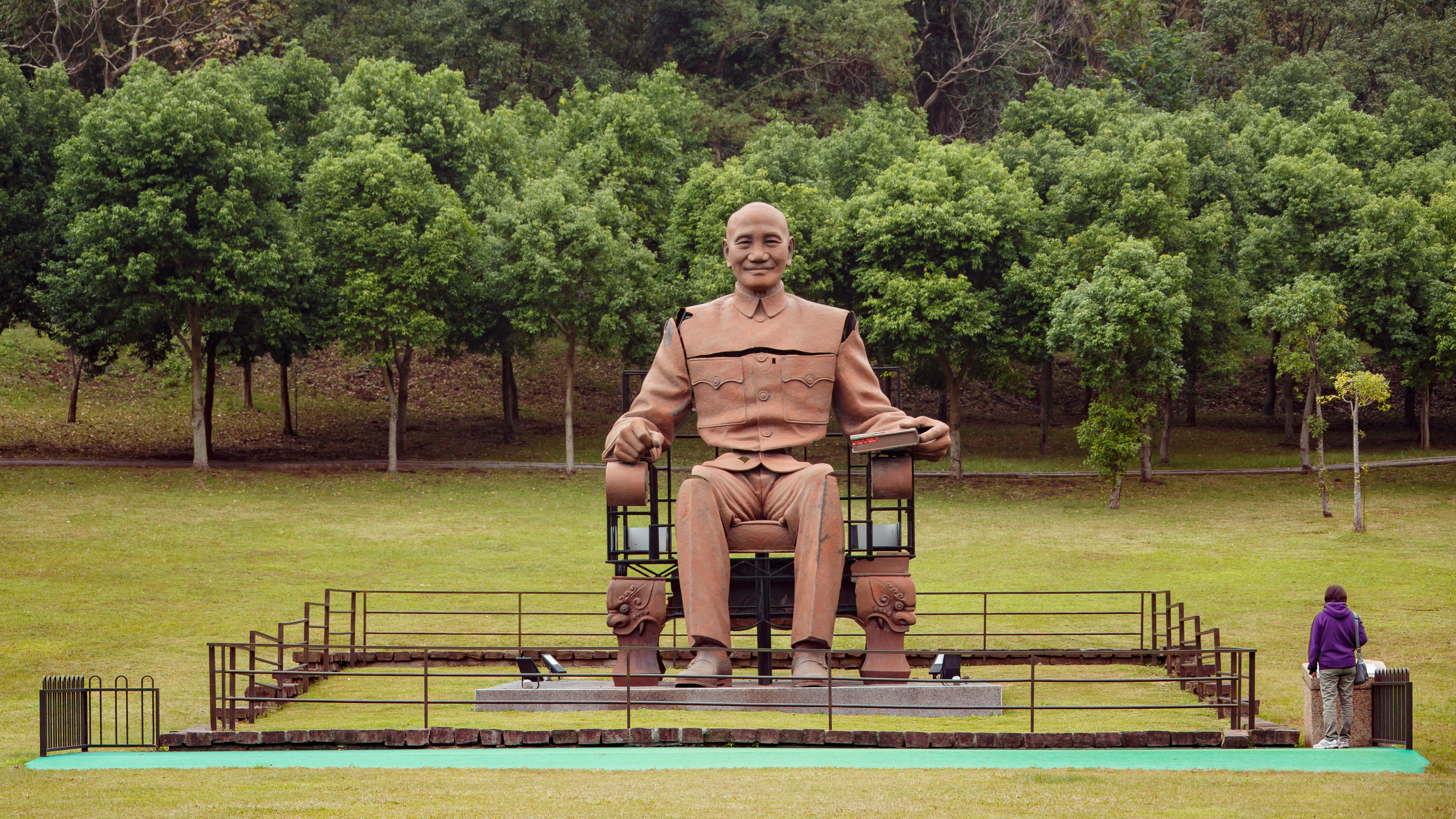 Cih-hu, Taiwan: one of the many statues of the Chiang Kai-Shek Statue Park.